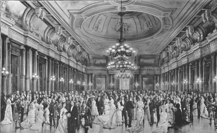 St. Andrew's Society Ball, Windsor Hotel, Montreal, Canada. Silver salts on glass - Wet collodion process, composite photograph.